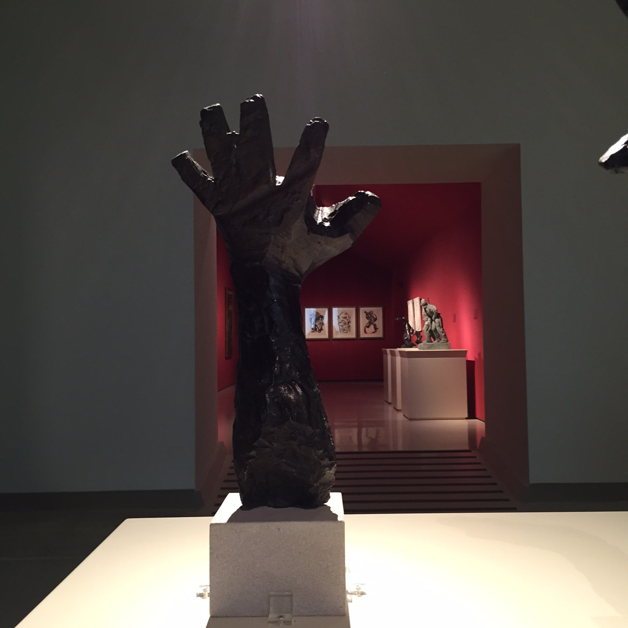 Photograph taken of the other side of Raised Left Hand